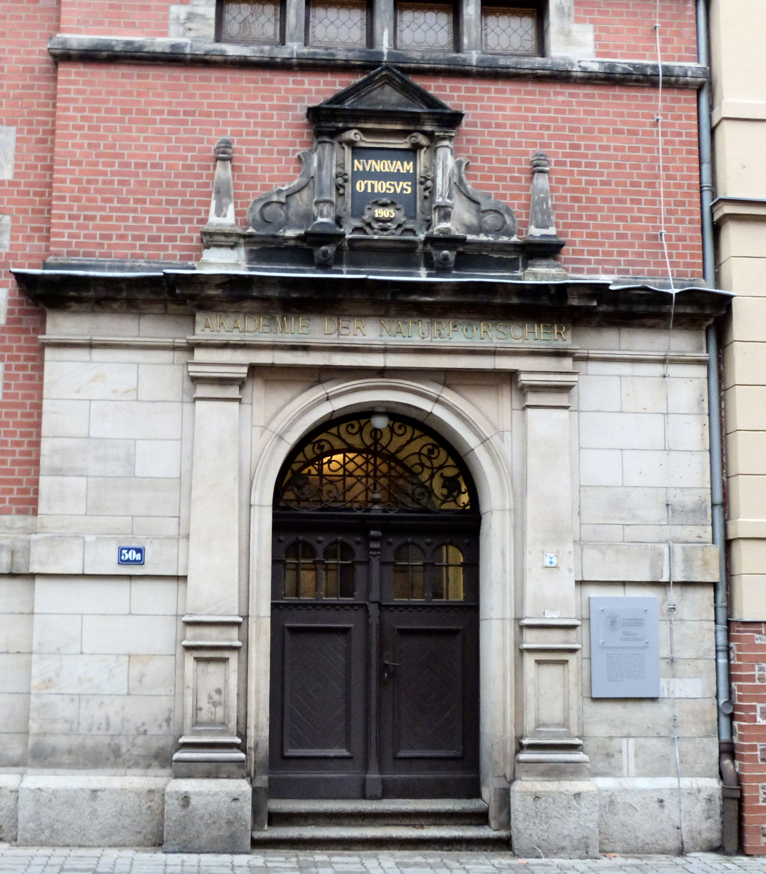 House No. 50a August Bebel-Strasse in Halle (Saale), library building of the German Academy of Sciences Leopoldina, built in 1903/1904